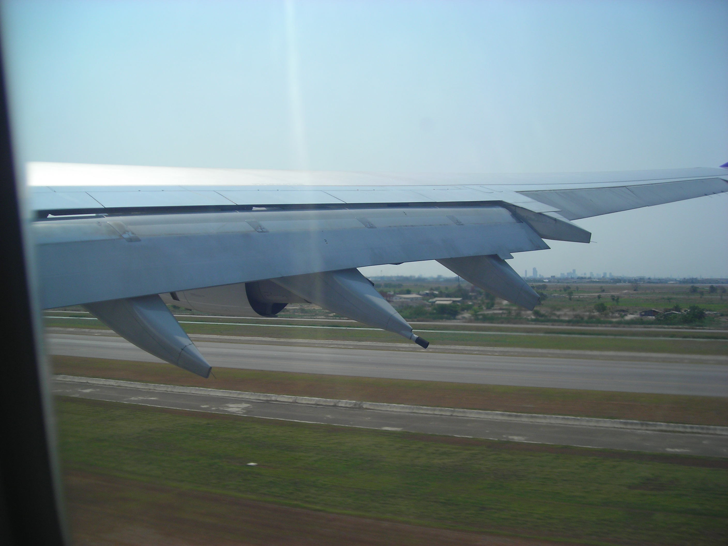 Airbus A340-600 during take-off — flaps pointing down.